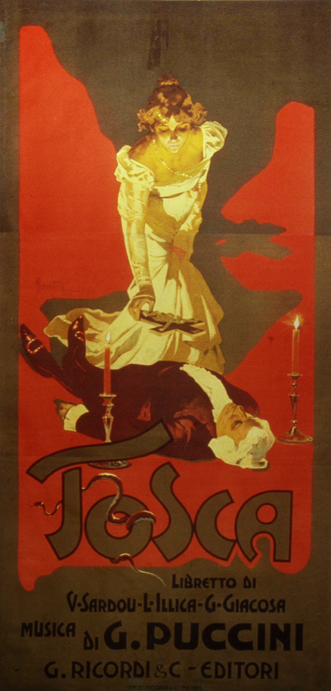 The title page of the first edition of the piano score to Puccini's opera Tosca, published by G. Ricordi